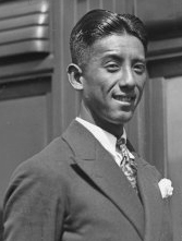 Japanese tennis player Ryosuke Nunoi at a railway platform, New South Wales.